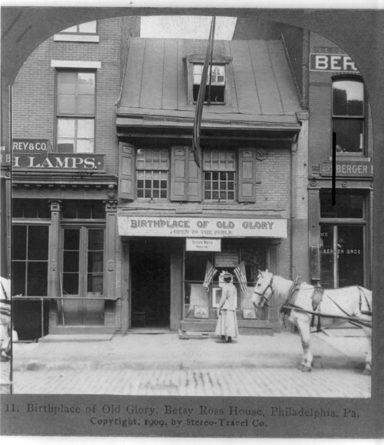 Birthplace of Old Glory (flag), Betsy Ross House, Philadelphia, Pa., 1903.